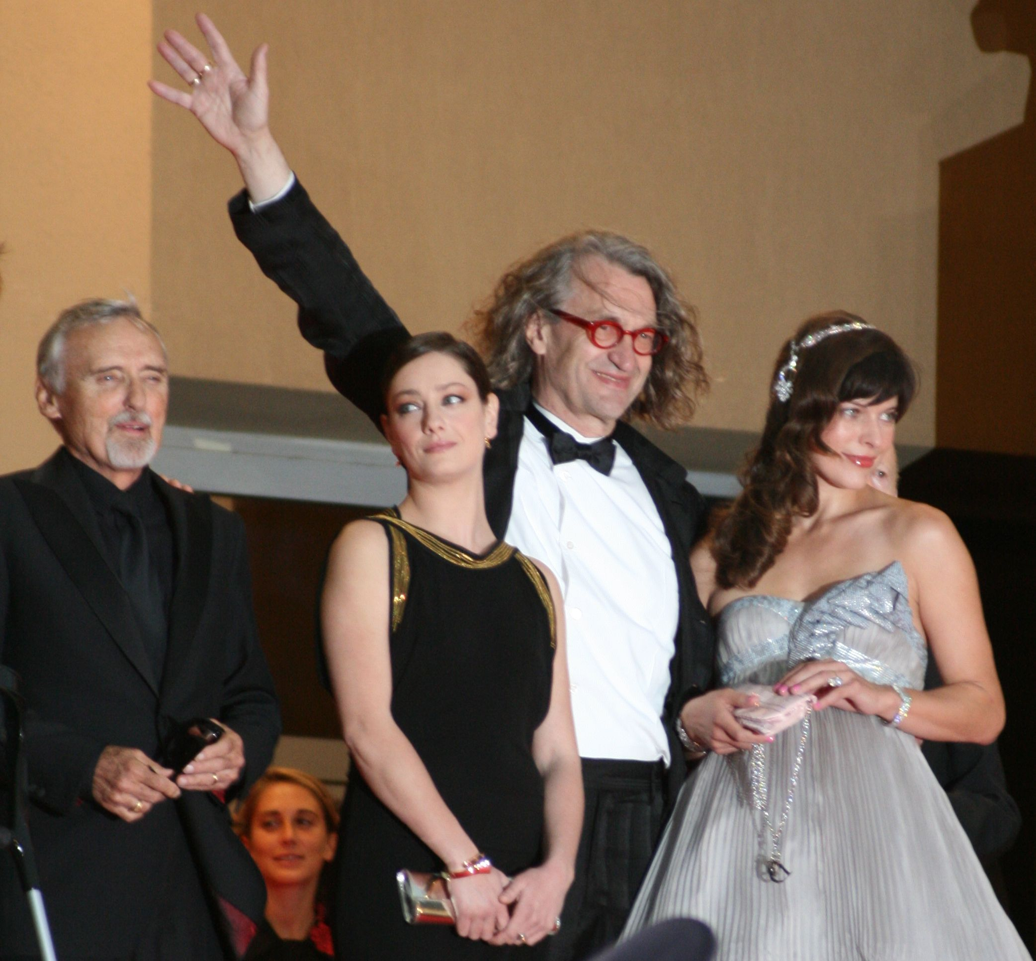 Cannes Film Festival 2008, for film Palermo Shooting (Dennis Hopper, Giovanna Mezzogiorno, Wim Wenders, Milla Jovovich)